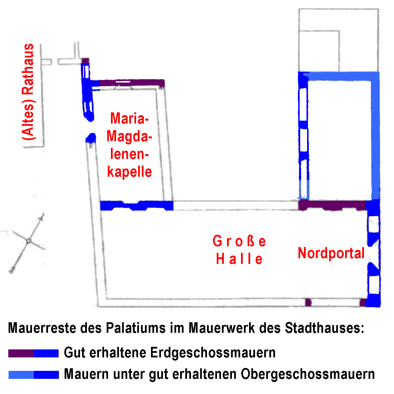 Relics of the medieval episcopla palace in the walls of the administrative building called "Stadthaus", built in 1818/1819 and replaced by the "Neus Rathaus"("New Townhall") in 1909/1910. This adaption is based on the originaldrawing of the ground flour, integrating informations of the drawing of the upper flour and of the report, whihc was illustrated by these plans.